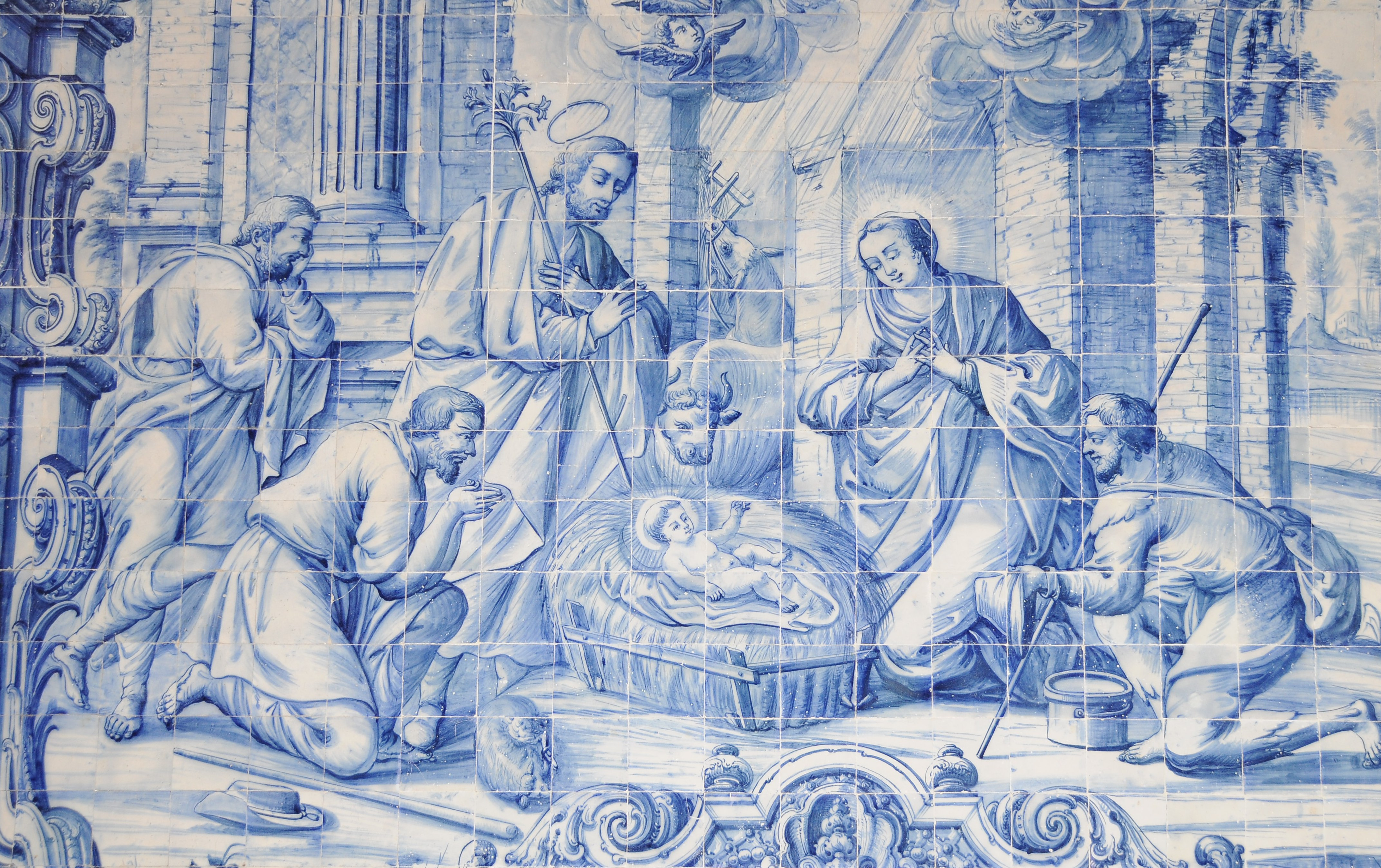 Azulejos of Adoration by the shepherds in Vilar de Frades Church, Barcelos, Portugal.